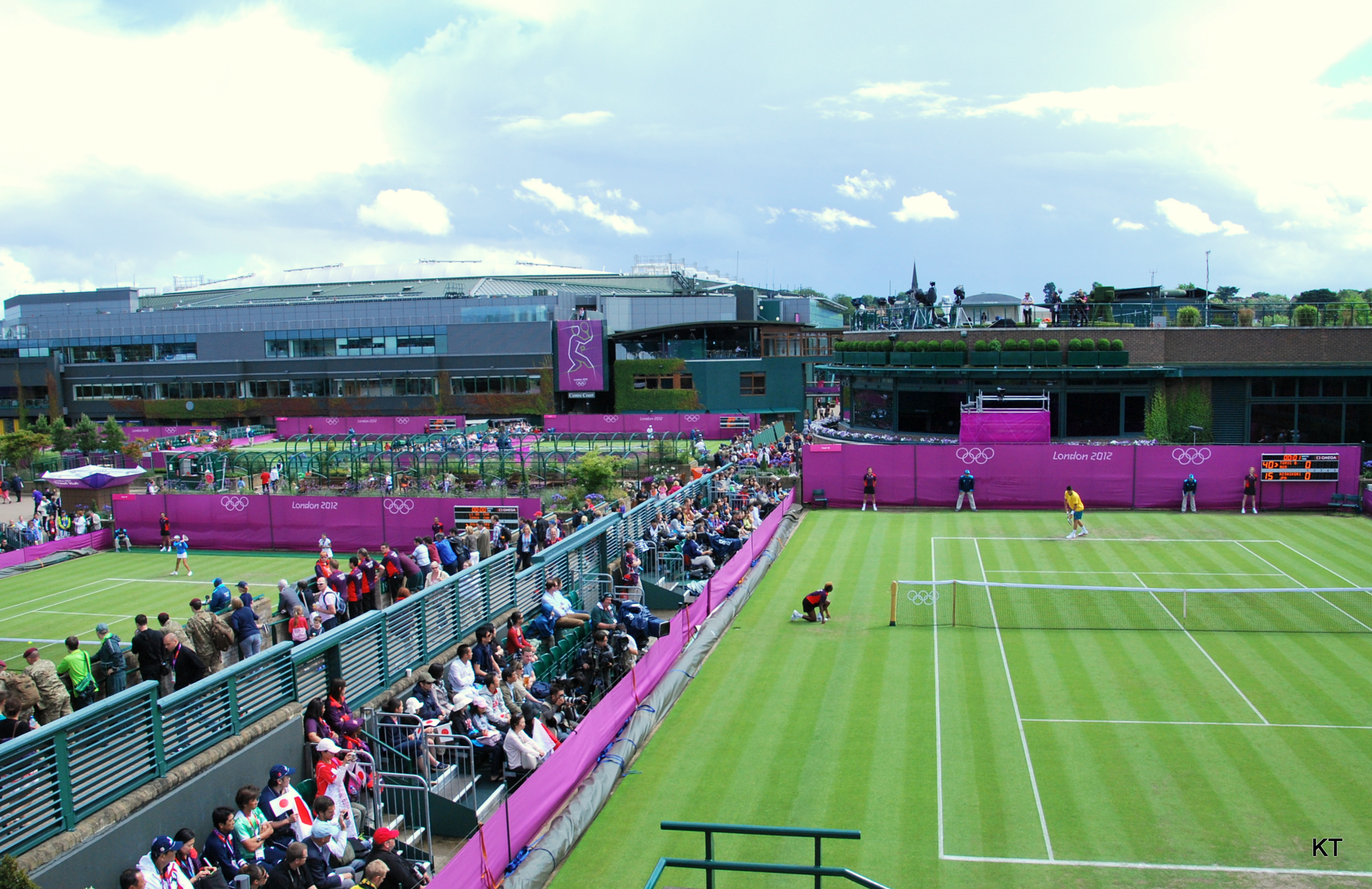 Courts 18 & 19